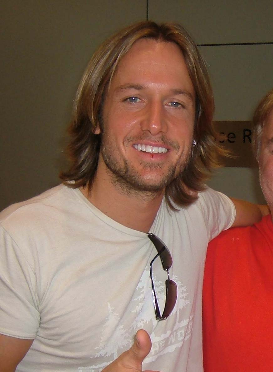 Keith Urban